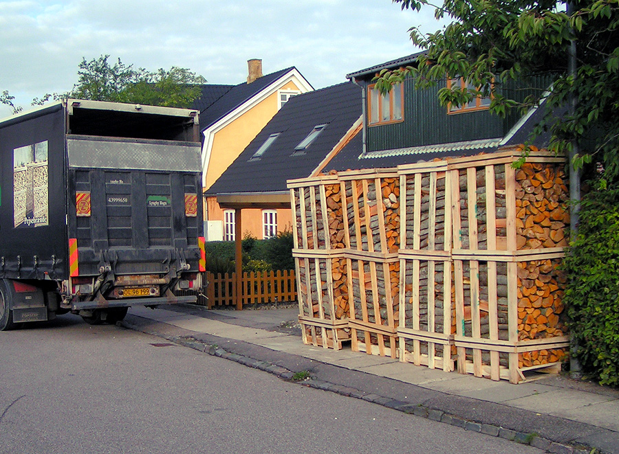 Piles of firewood delivered right to the consumer's door